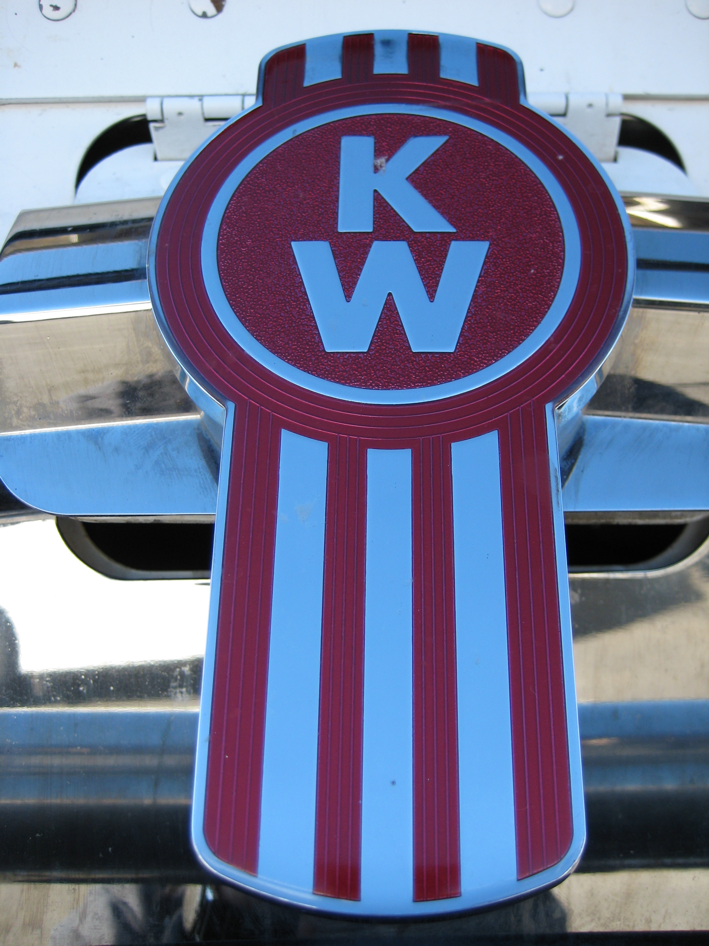 Close up of Kenworth K104 radiator cover badge